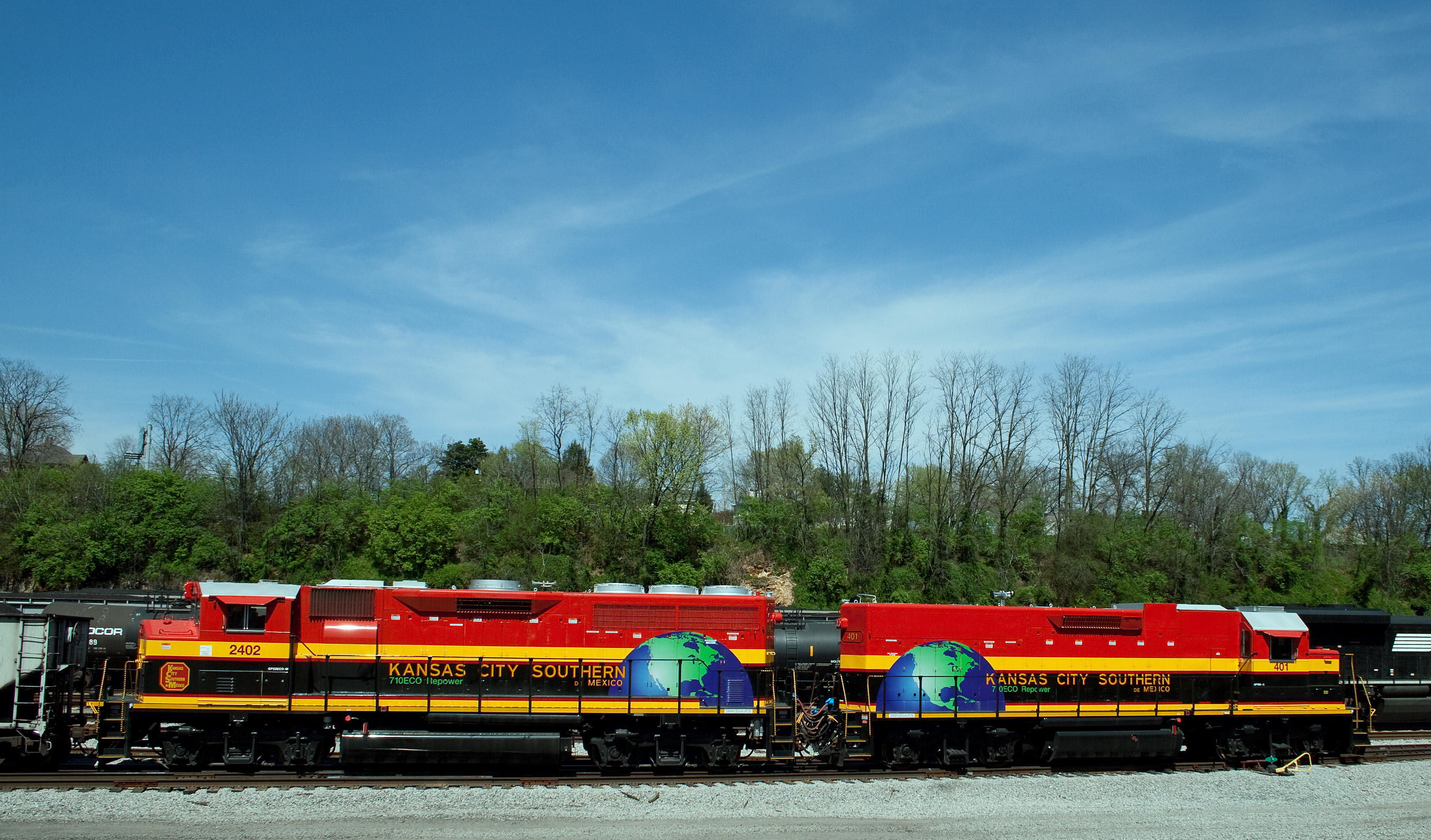 Kansas City Southern de Mexico # 2402 (an EMD GP22ECO-M) and # 401 (an EMD GPTEB-C Slug) rest between tests in Roanoke, Va. The units along with Brookville Equiment BMEX #259 are being tested by the Norfolk Southern.